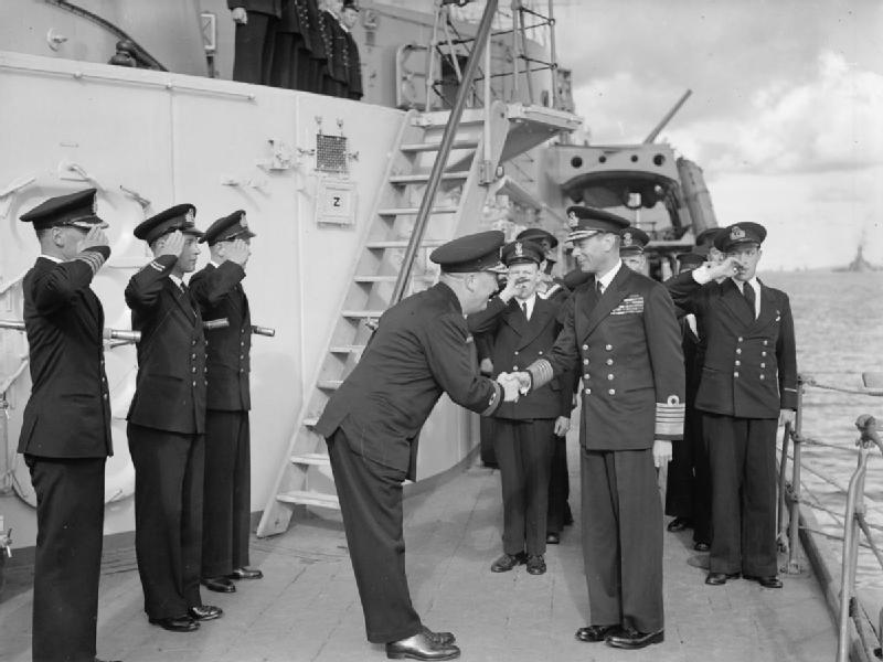 IWM caption : Visit by HM King George VI, Scapa Flow: Rear Admiral Robert Burnett greets HM King George VI on board HMS BELFAST.